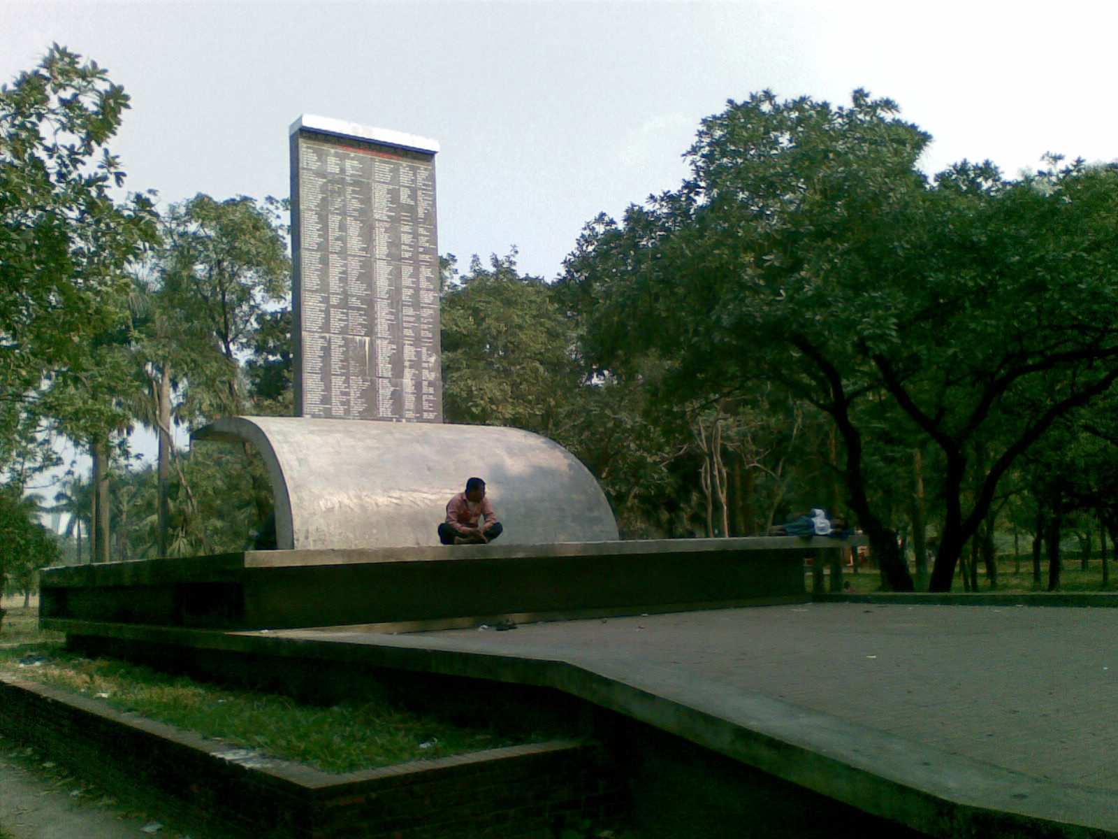 Location: Sohrawardy Uddan, Dhaka.